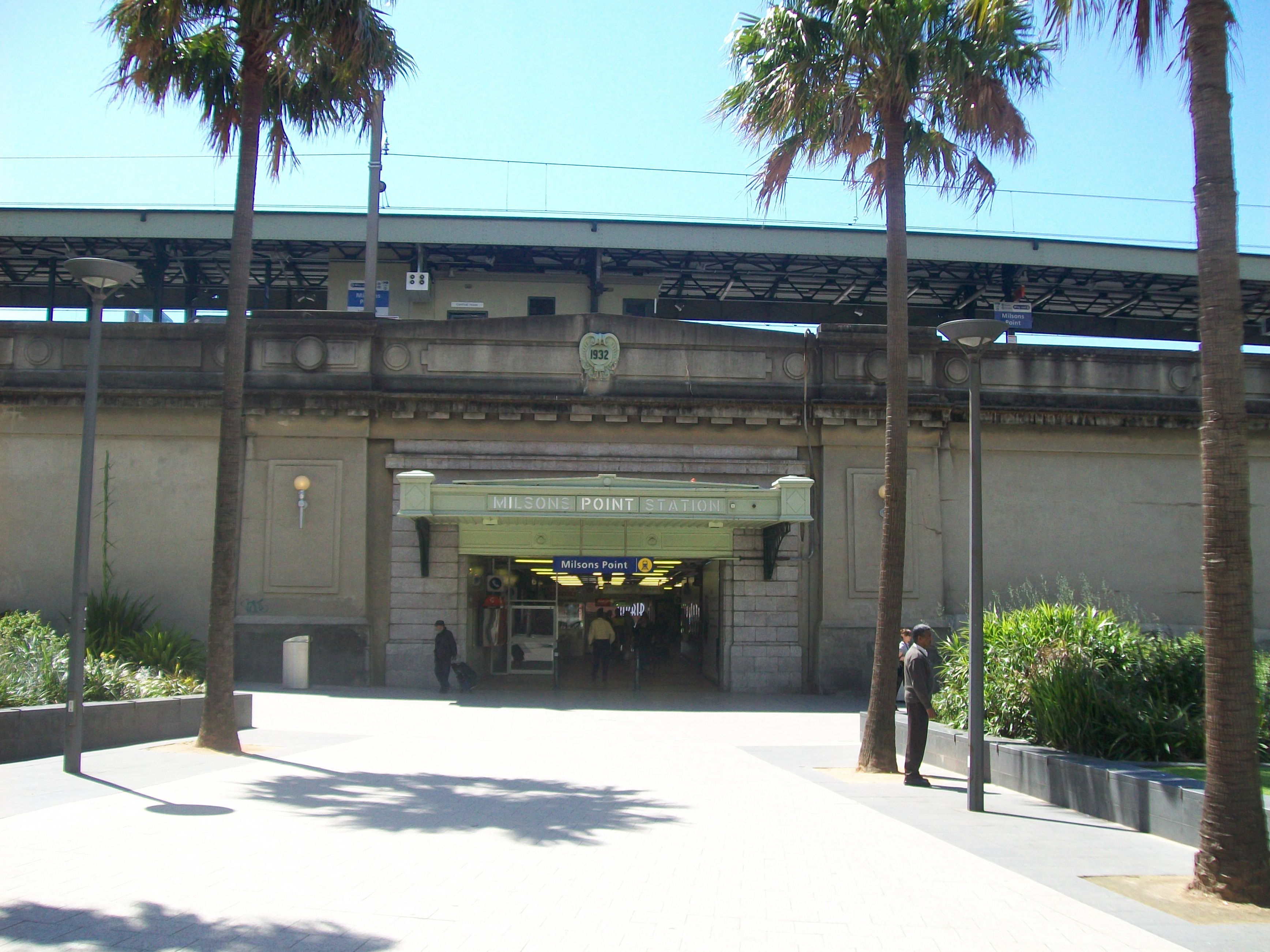 Milsons point railway sandstone entry